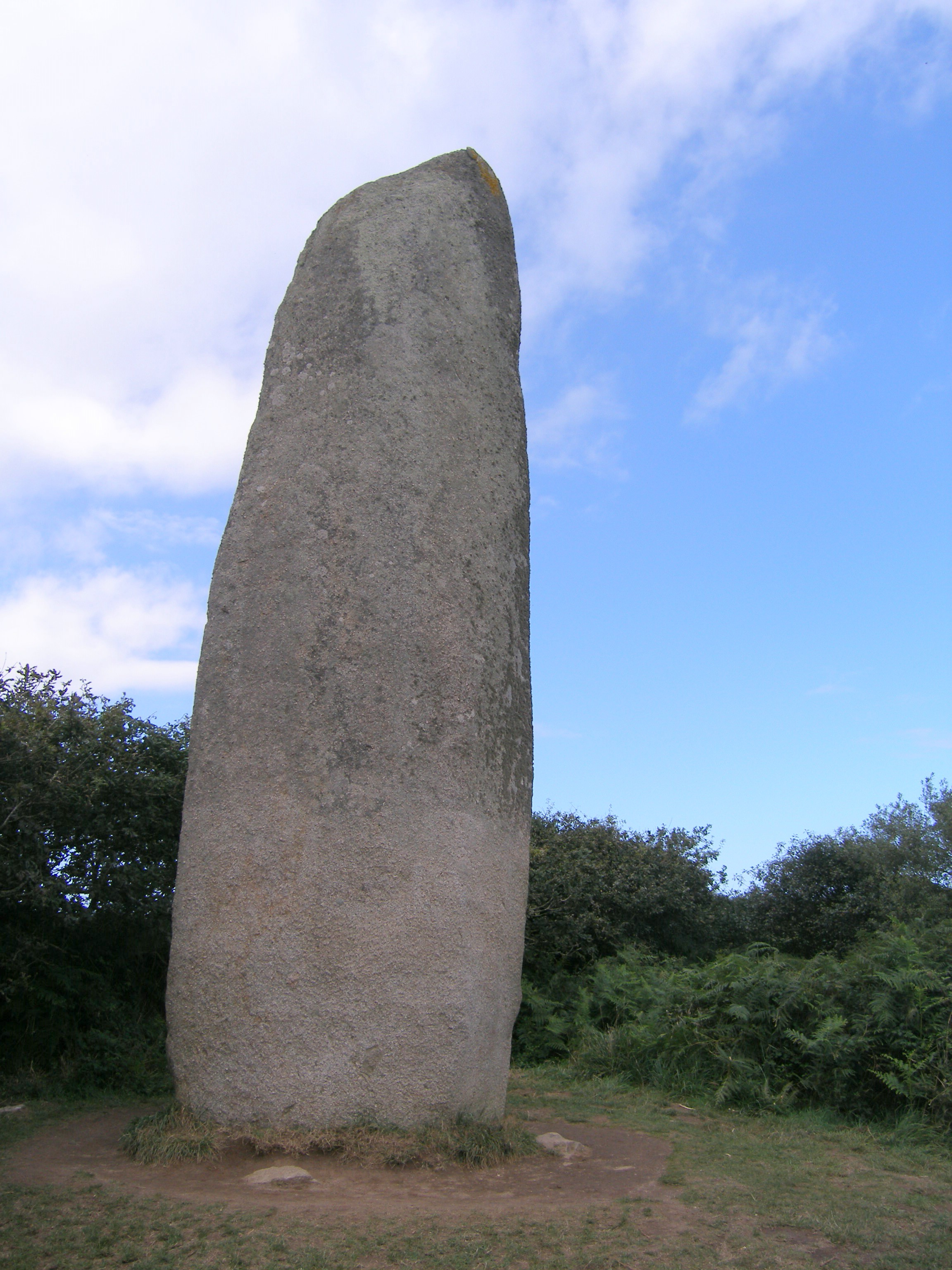 The Kerloas Menhir, near Plouarzel in Brittany, France. With a height of 9.5 meters this menhir is the tallest standing menhir in Bretagne. A few centuries ago the top was destroyed in a thunder storm: originally it must have been over 10 meters high. (See: J. Briard: The Megaliths of Brittany)